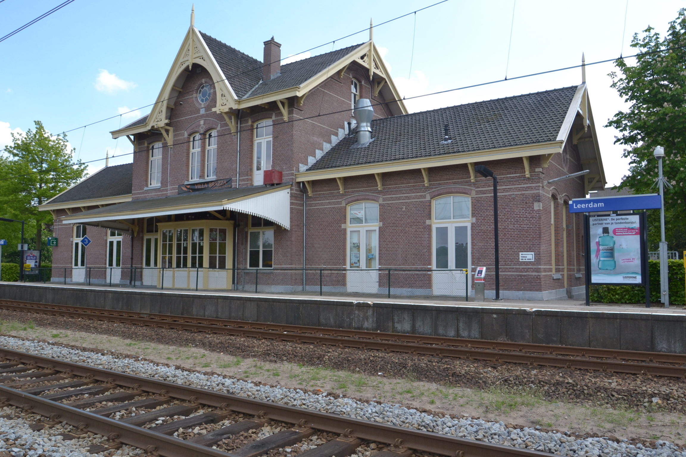 Railway station Leerdam, MerwedeLingelijn, the Netherlands.